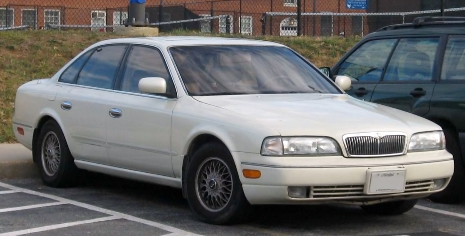 1994-1996 Infiniti Q45 photographed in College Park, Maryland, USA.